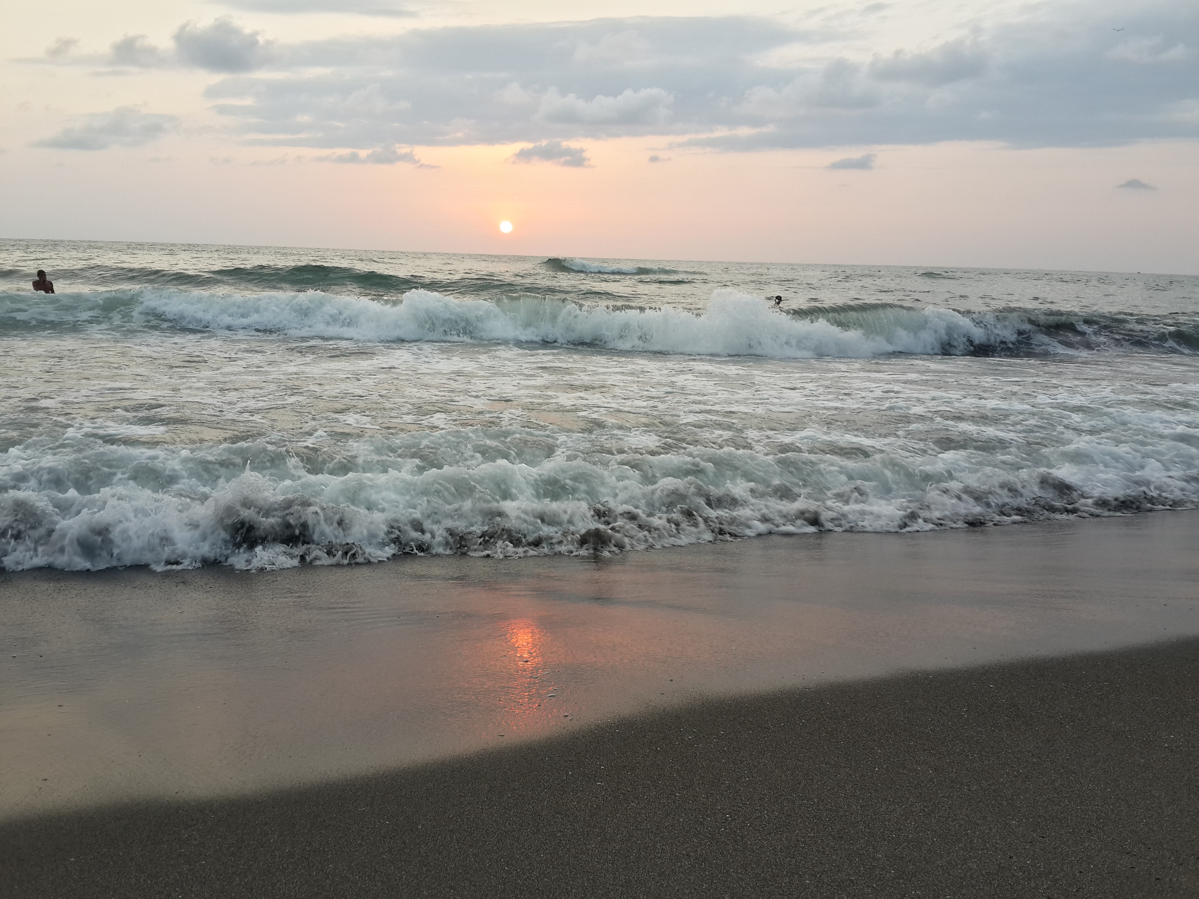 A black sand beach seen during sunset in Ureki, Georgia